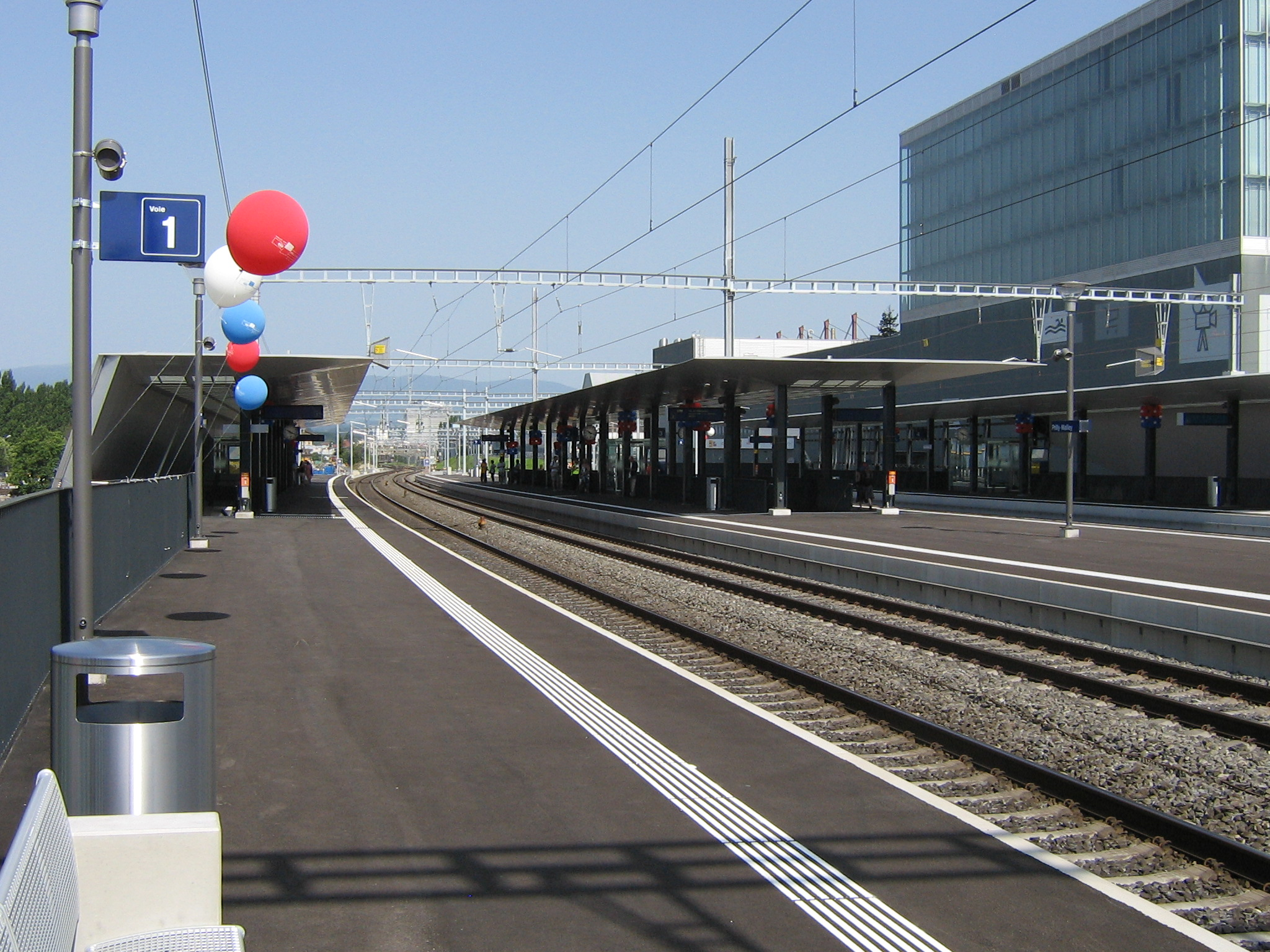 Global view of the railway station of Prilly-Malley.